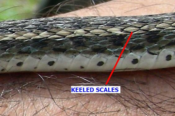 Buff-striped keelback, Amphiesma stolata, Family Colubridinae, Serpentes Closeup of the keeled scales of the Buff-striped keelback. Image taken on 17 Jul 06 in Binnaguri, Duars, northern West Bengal, India by AshLin. Self-work. CC2.5-Self work, attribution required. AshLin 12:25, 23 July 2006 (UTC)